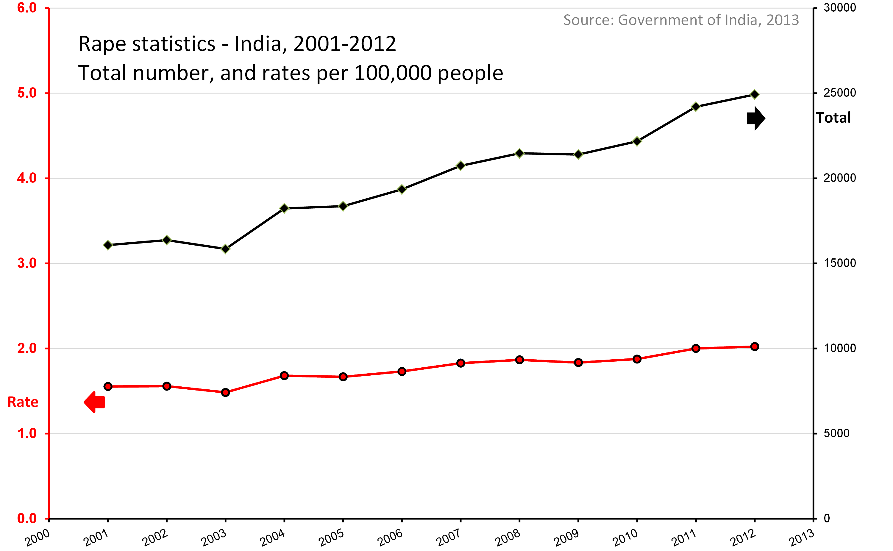 A trend chart showing reported rape crime against women in India from 2001 to 2012. The rape rate shows rape per 100,000 people. Source: All India Crimes against Women during 2001-2012 published by National Crime Records Bureau Government of India 2013 report The total population trend has been verified with data from BRICS - Joint Statistical Publication 2012 Ministry of Statistics and Programme Implementation, Govt of India